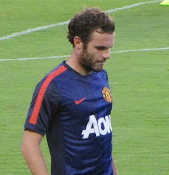 Juan Mata during a training session in Washington D.C.